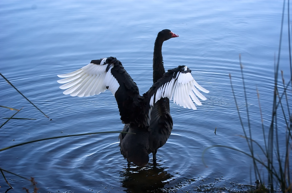 Black Swan, Lake Monger, 2010.